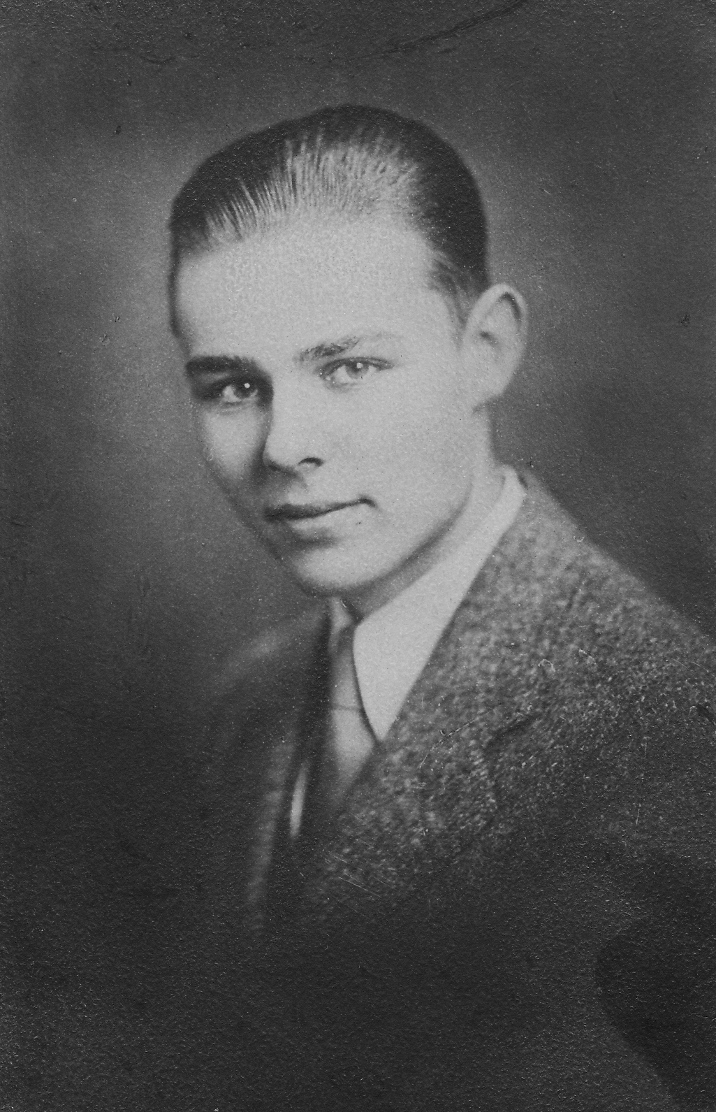 photo of Worth Hamilton Weller